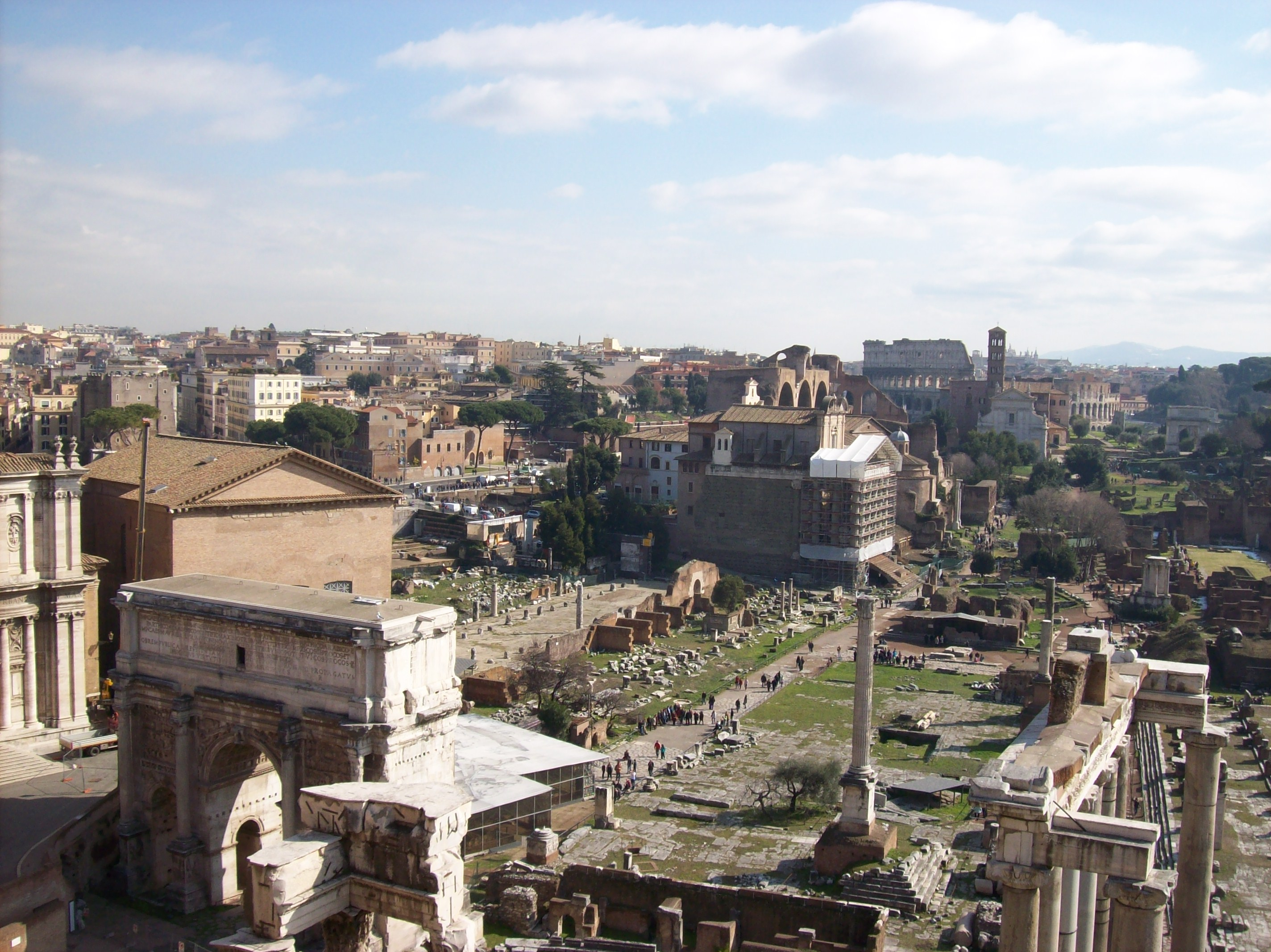 The Roman Forum seen from a window of the Palazzo Senatorio